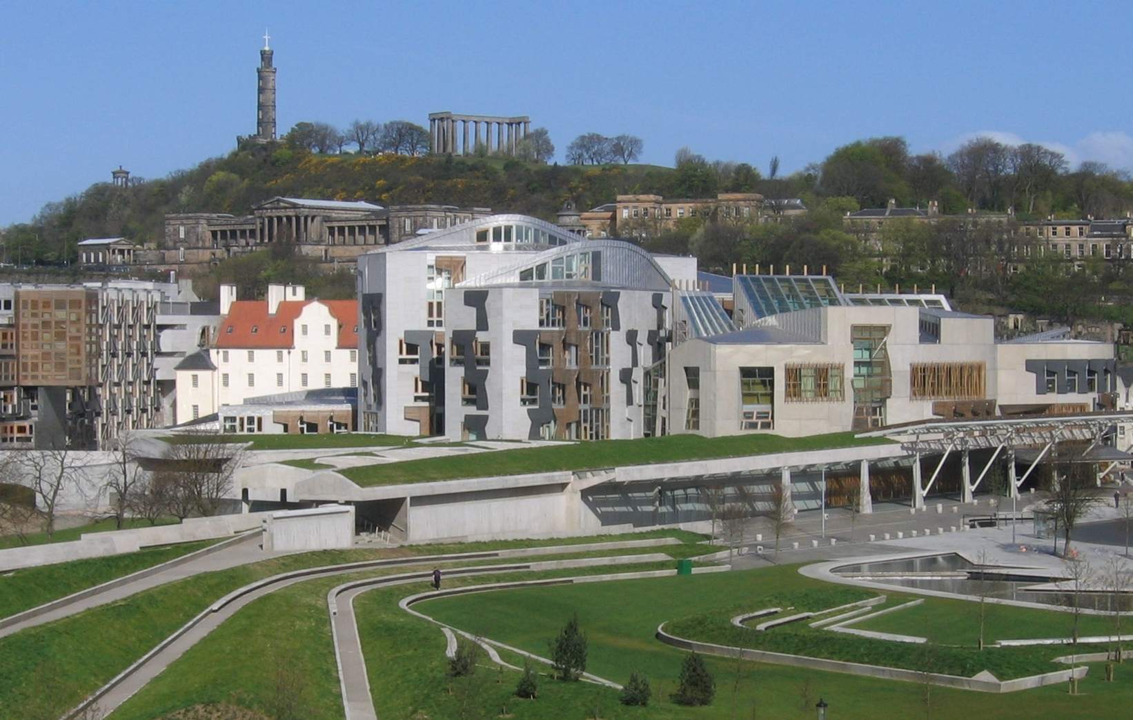 Scottish Parliament in Edinburgh, as seen from halfway up Salisbury Crags, just below the Radical Road. (Crop of rotated version of Image:Edinburgh_Scottish_Parliament01_2006-04-29.jpg)